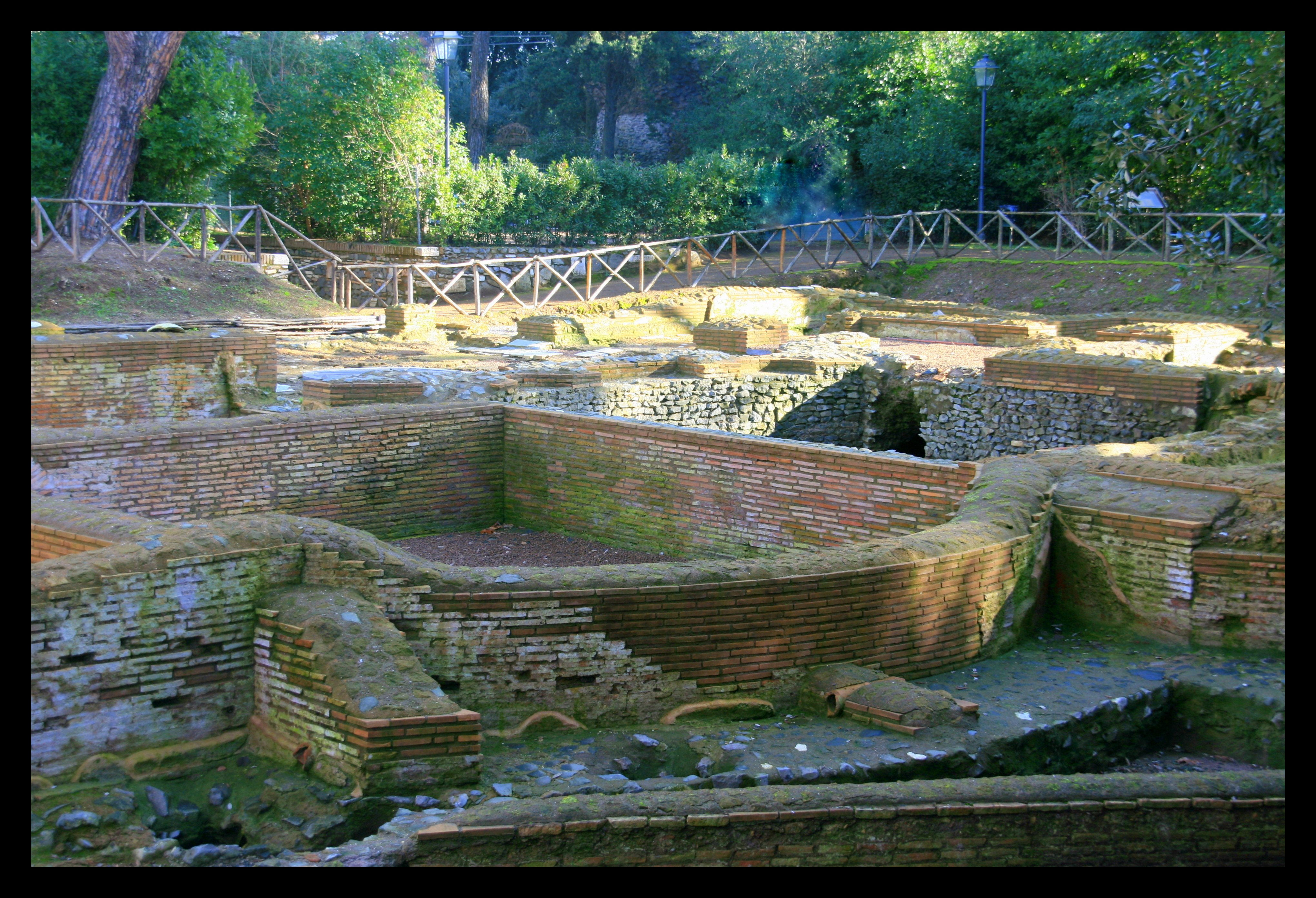 Excavations of the baths at Capo di Bove, Via Appia 222, Rome Italy